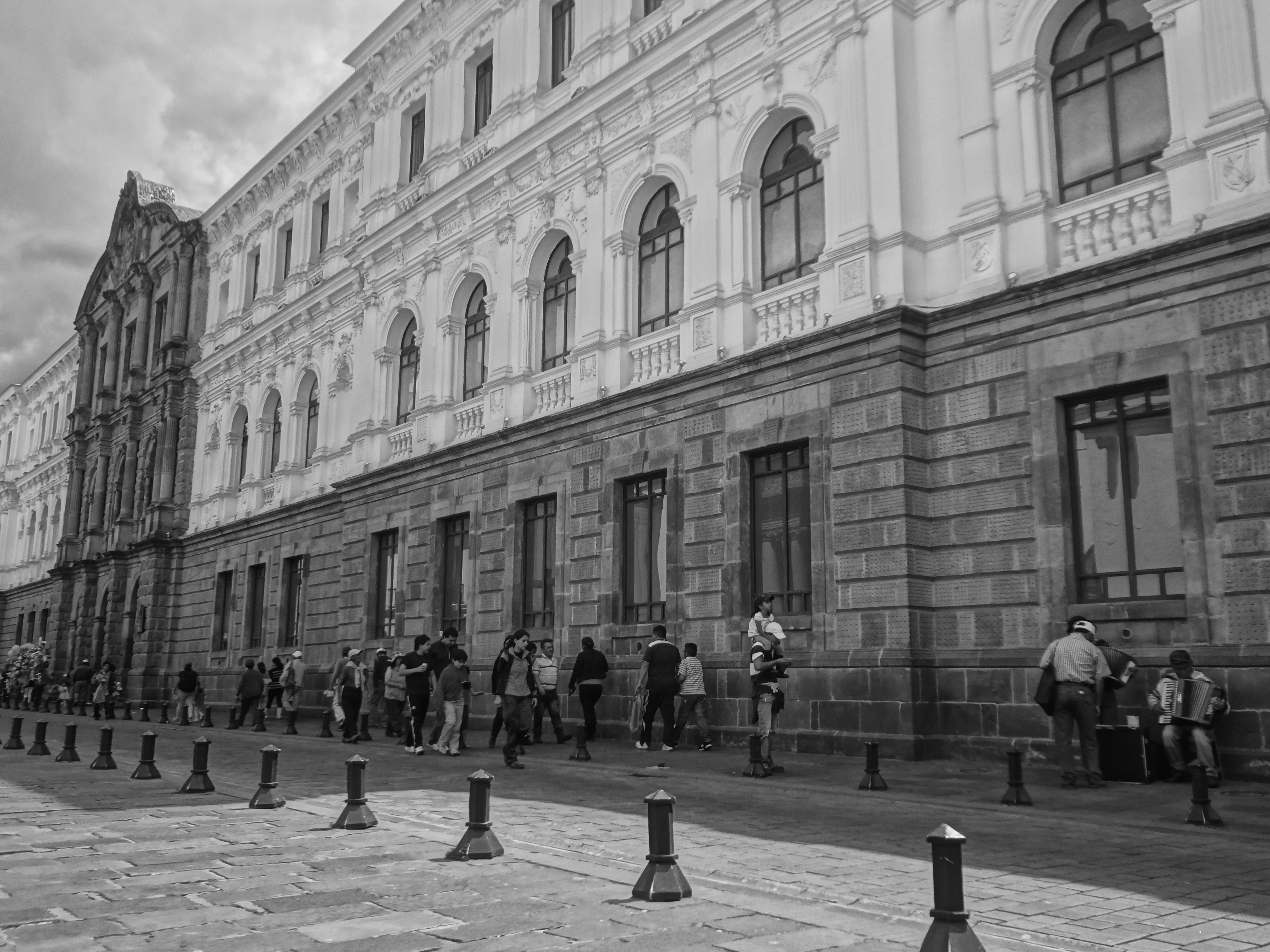 Exterior of the Centro Cultural Metropolitano in the Historic Center of Quito - World Heritage Site by UNESCO (Calle García Moreno, Quito) World Heritage Site by UNESCO (El Centro Histórico de Quito) Photography by David Adam Kess